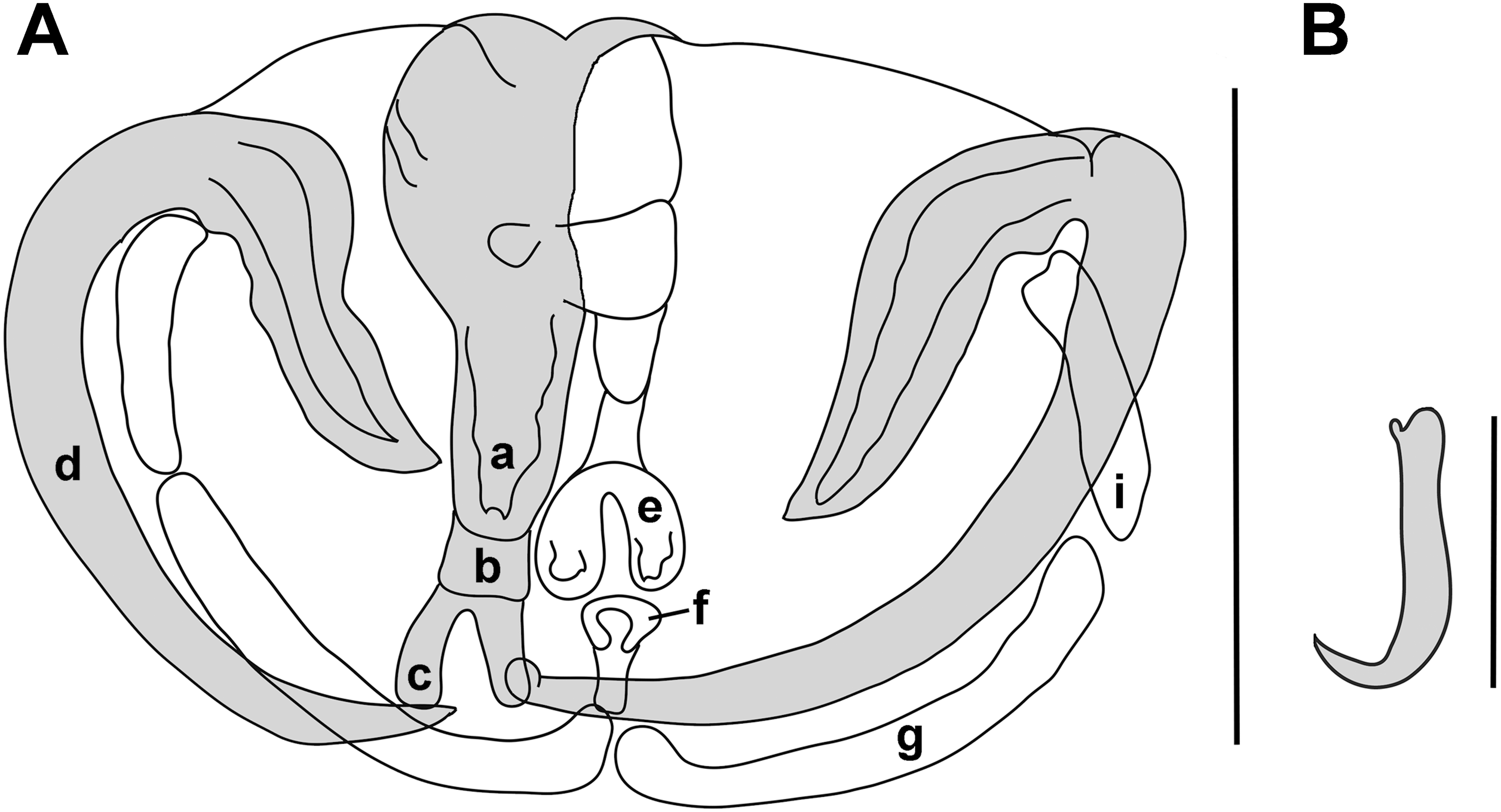 Figure 2 of paper Paradiplozoon hemiculteri clamp. A) Clamp morphology (scale bar = 50 μm); a) anterior end of median plate, b) trapeze spur, c) anterior joining sclerite, d) proximal tip of anterior jaw, e) posterior end of median with a wide rounded sclerite, f) posterior joining sclerite, g) medial sclerite of posterior jaw, i) lateral sclerite of posterior jaw. B) Central hook sickle (scale bar = 20 μm).